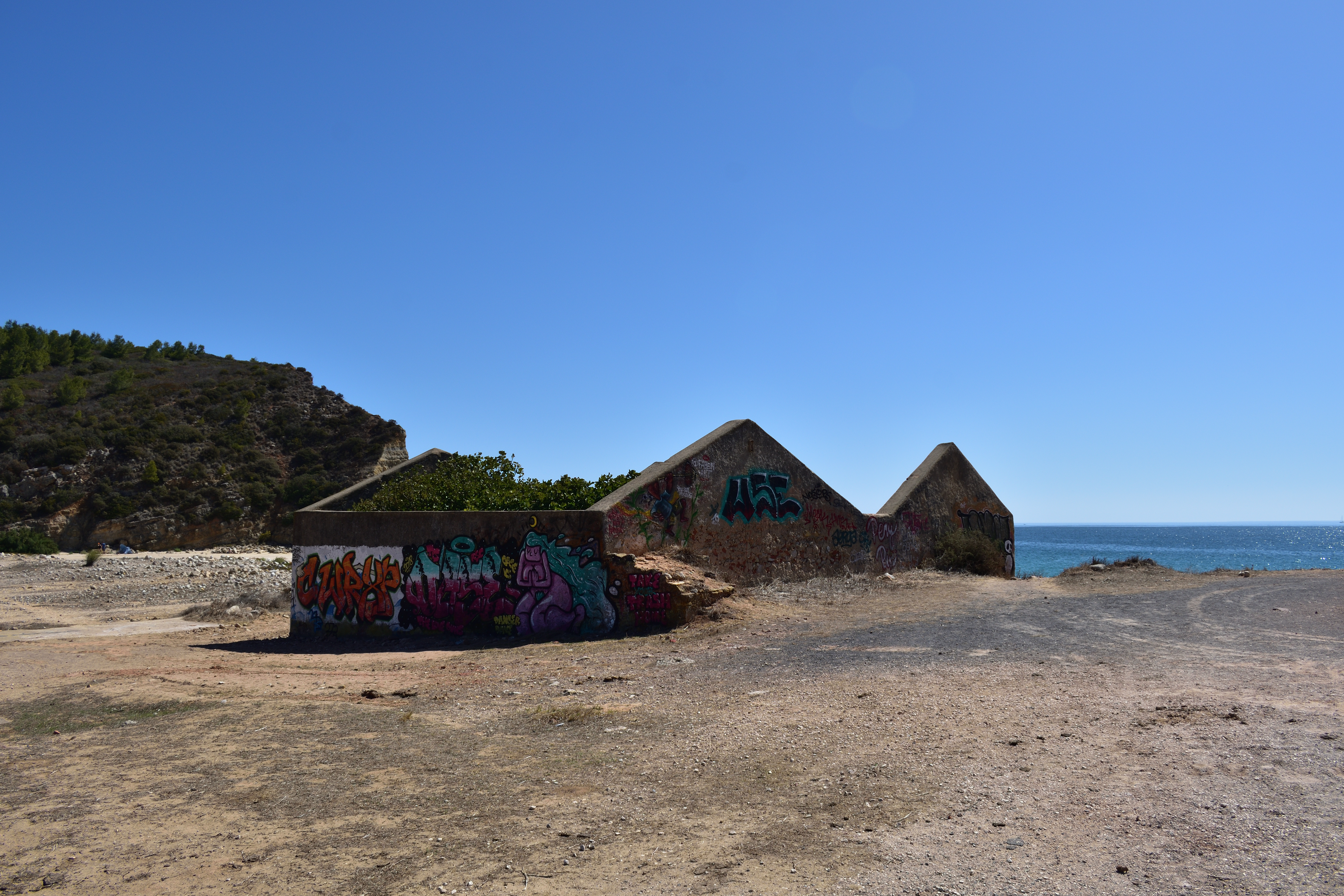 Companhia de Pescas do Algarve's Warehouse, Boca do Rio, Budens, Vila do Bispo - Algarve, Portugal.